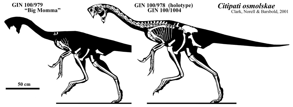 Skeletal reconstruction of Citipati osmolskae.